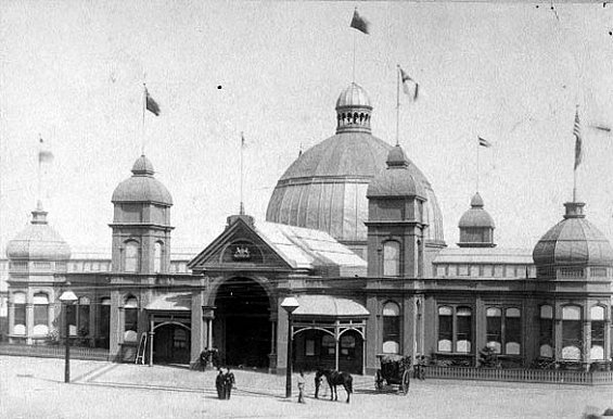 Exterior of Building at Dunedin World's Fair